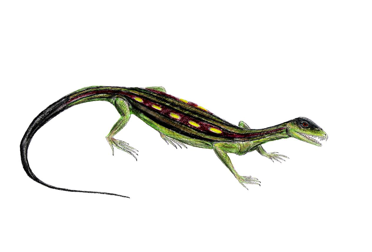 Life restoration of Araeoscelis grandis. Based on figure 4 of "The anatomy and relationships of the Lower Permian reptile Araeoscelis" by R. R. Reisz, D. S. Berman, and D. Scott Journal of Vertebrate Paleontology 4(1):57-67